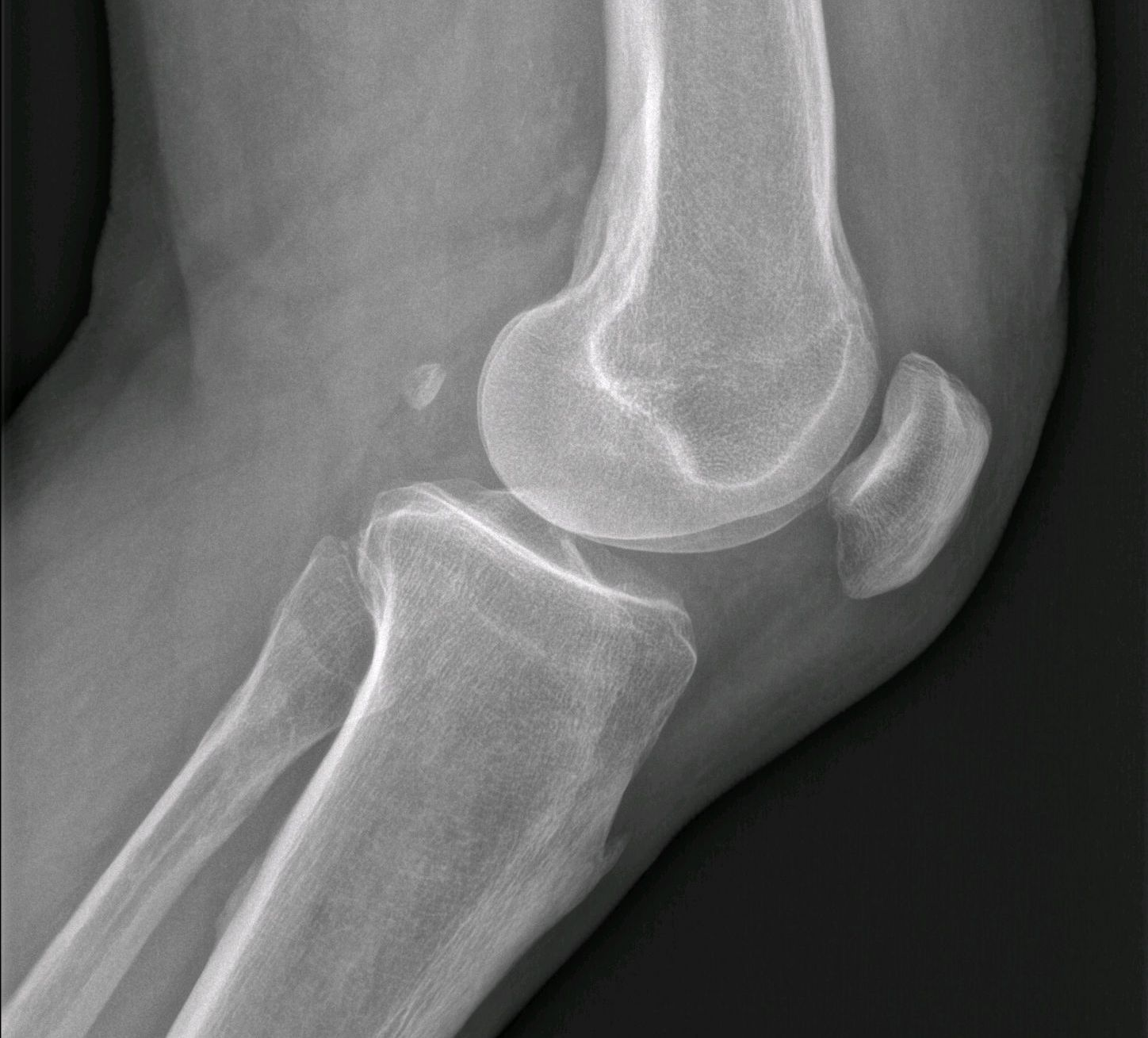 Fabella is the small calcification appears back of femoral condyles